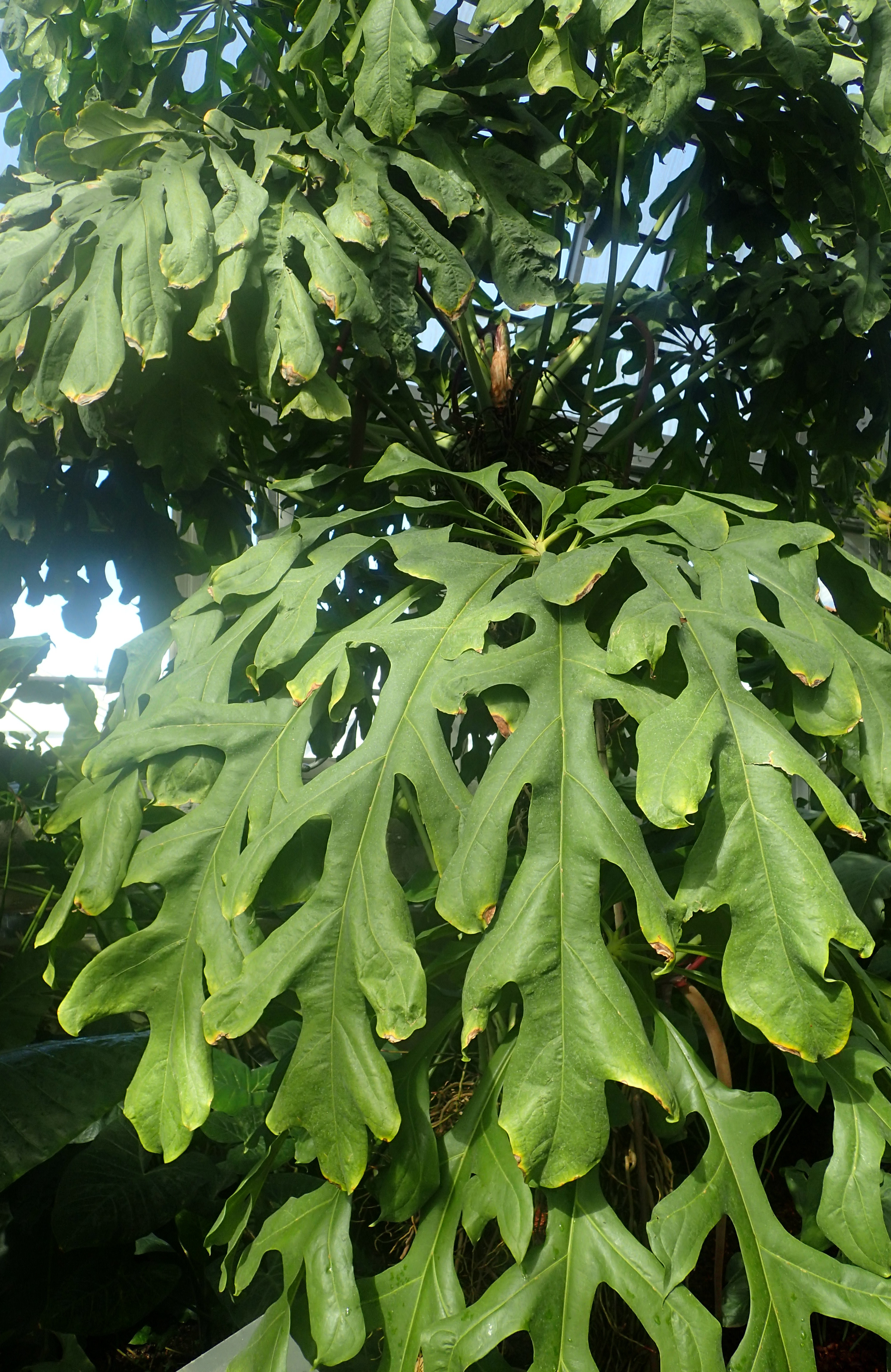 Anthurium clavigerum at Garfield Park Conservatory